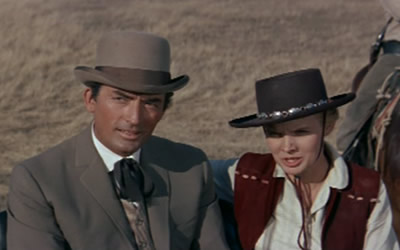 Trailer screenshot from The Big Country